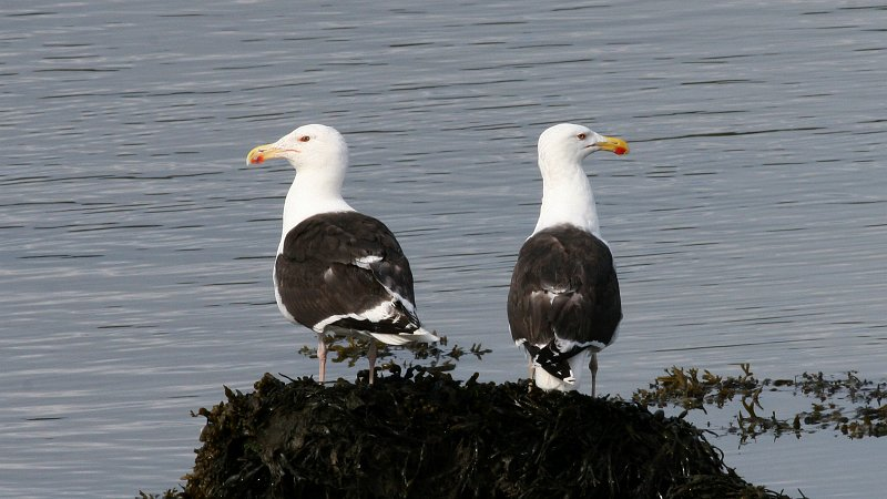 Great Black-backed Gull (Larus marinus)